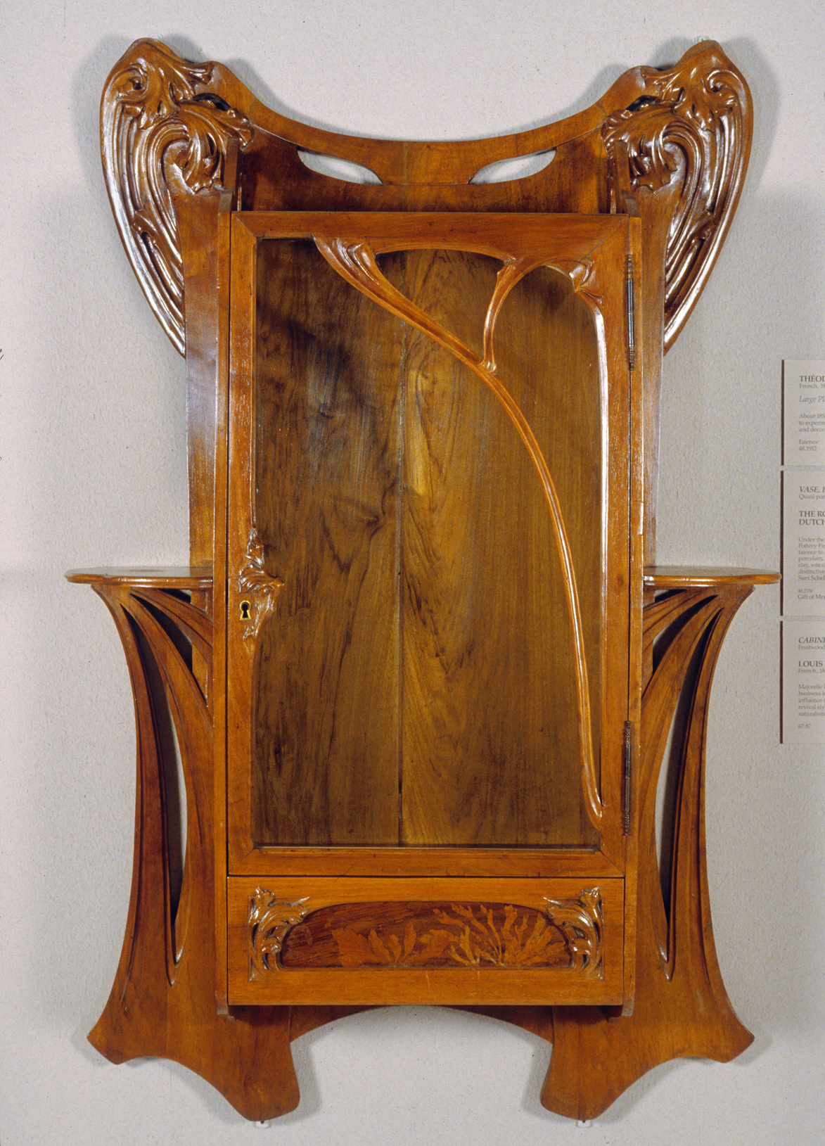 This cabinet is thought to have been designed by Louis Majorelle, who, along with Emile Gallé, was a leading exponent of the Art Nouveau movement in the town of Nancy in northeastern France. Art Nouveau varied from country to country and city to city. As practiced in Nancy, it was a sinuous, linear style with rich vegetal decorative details, frequently inspired by Japanese design.